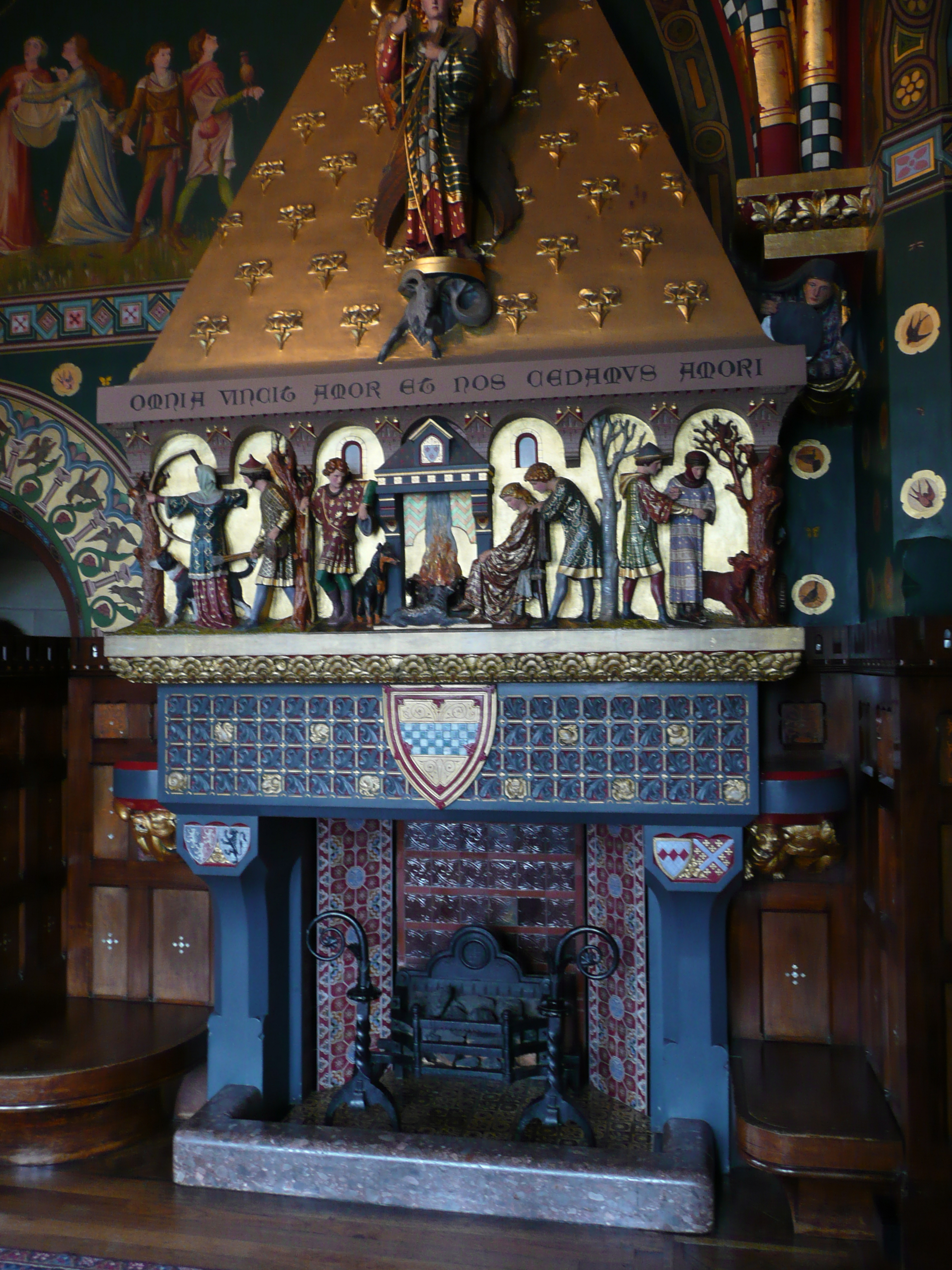 Fireplace at Cardiff Castle, Cardiff, Wales